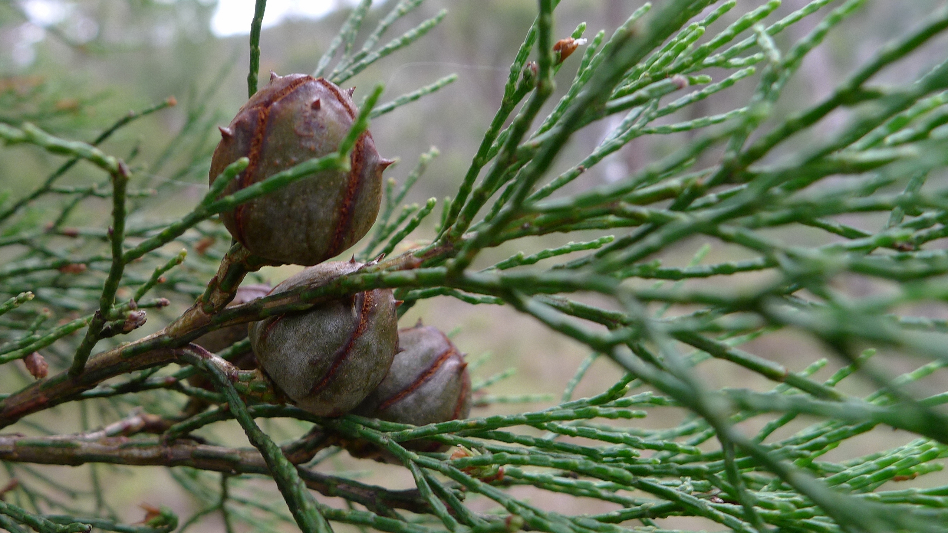 Black Cypress Pine, Callitris endlicheri. Tia Falls, Oxley Wild Rivers National Park, NSW Australia, April 2013.